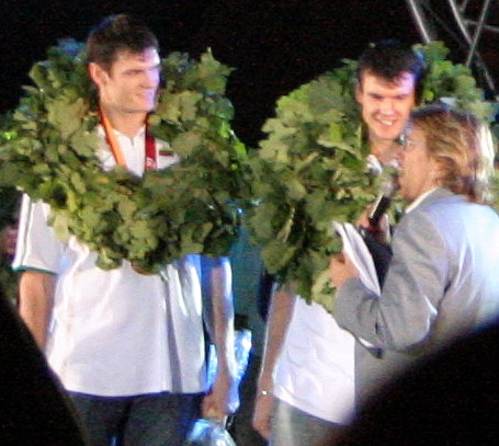 Twin brothers Darjuš and Kšyštof Lavrinovič, Lithuania national basketball team